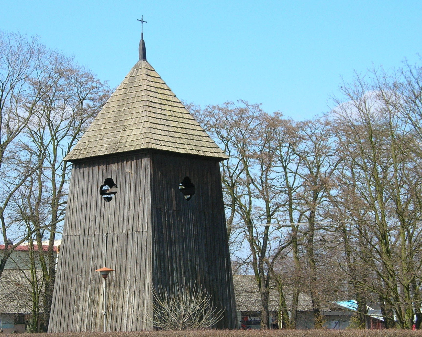 Wooden bell tower of the church in Biała